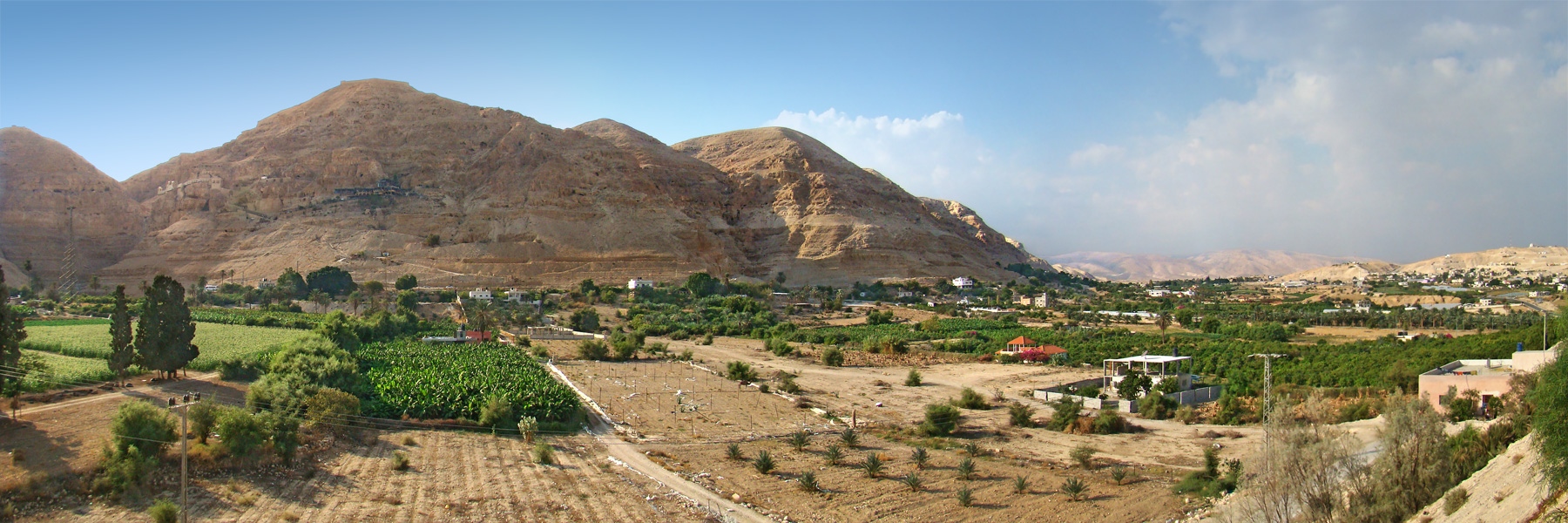 Mount of Temptation, Jericho, Palestine.